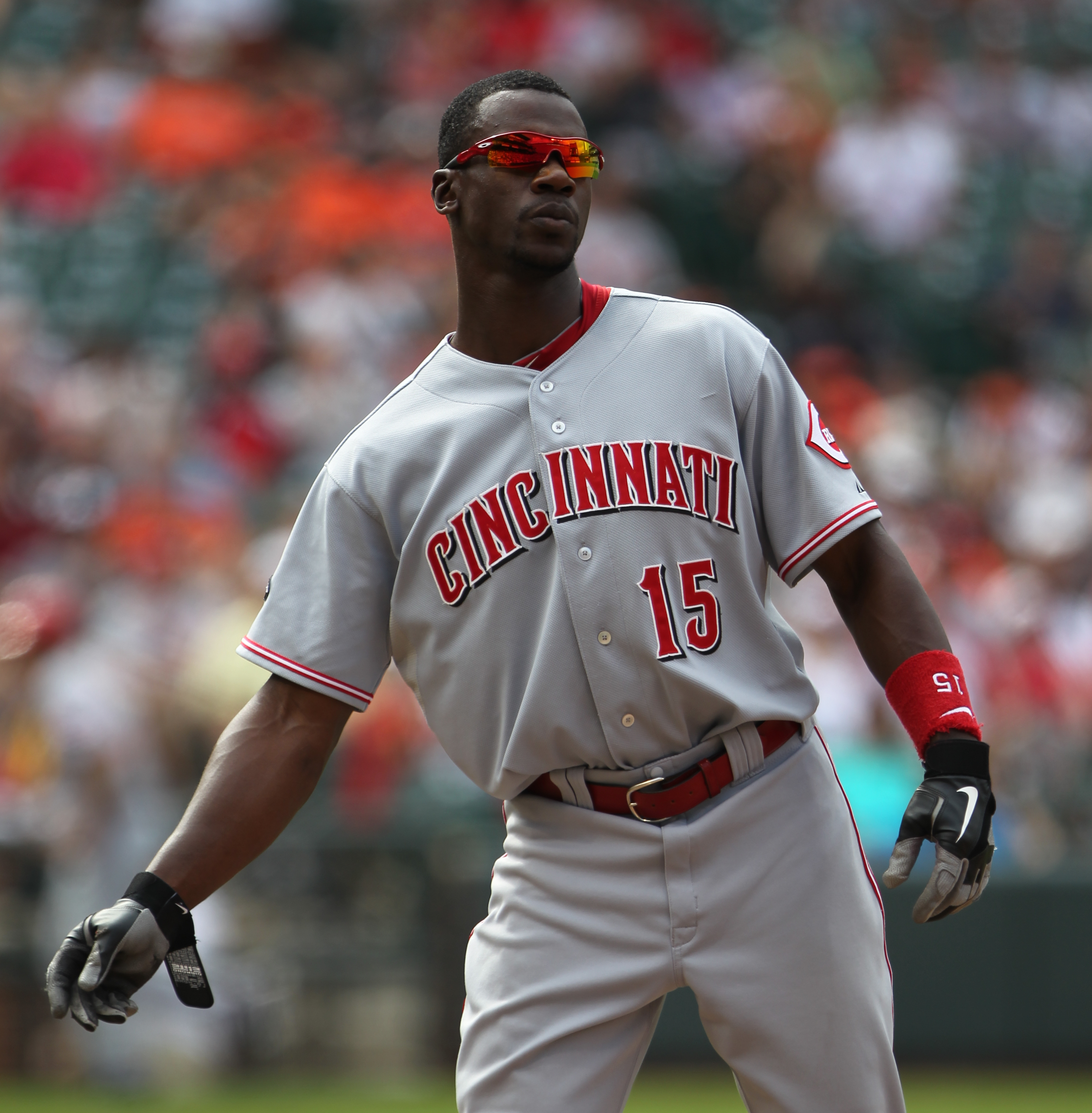 Fred Lewis